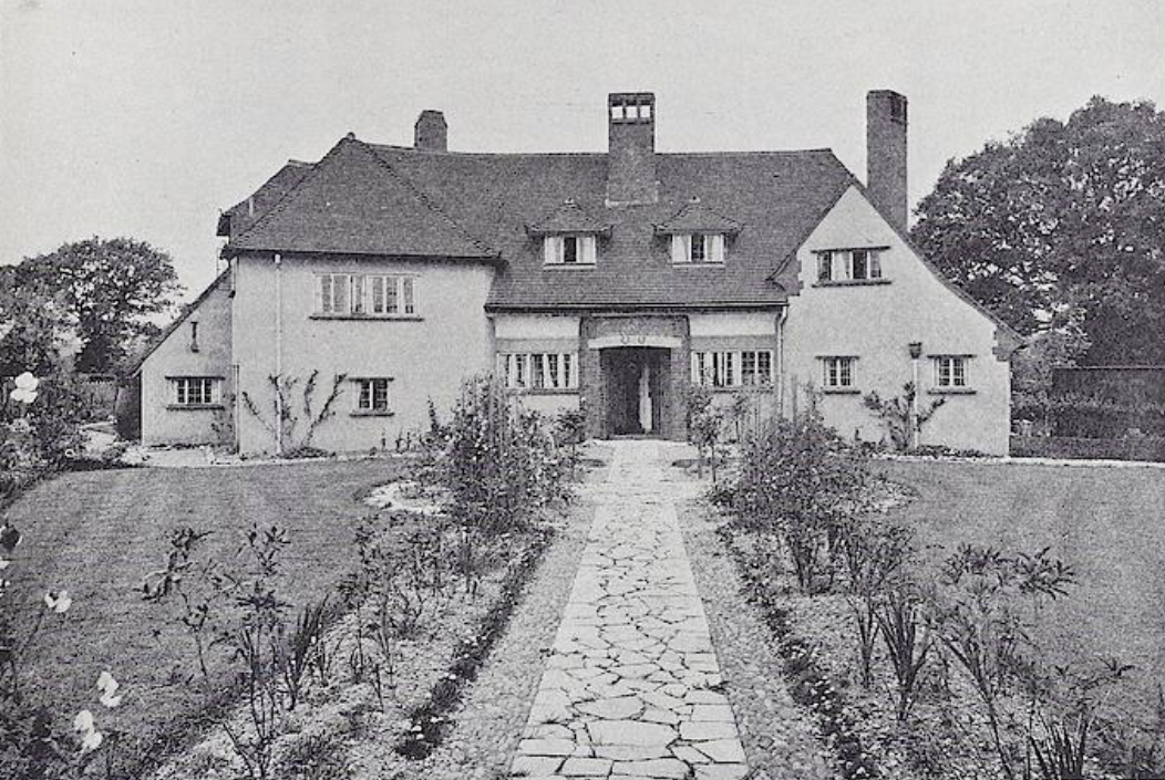 Brantfell, Gerrards Cross by Forbes and Tate. From The Studio Yearbook of Decorative Arts 1911.